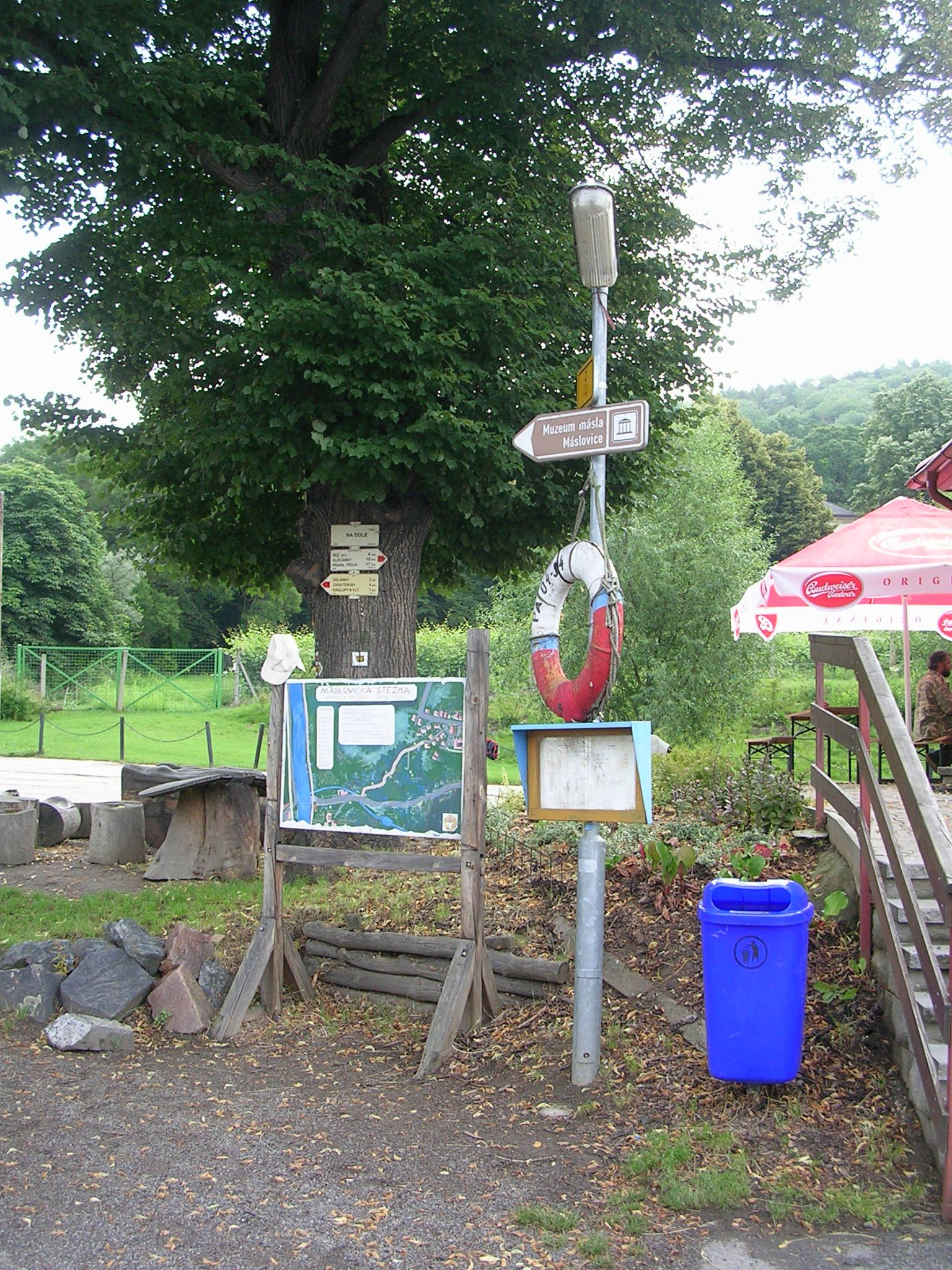 Máslovice-Dol, Prague-East District, Central Bohemian Region, the Czech Republic. A boards and signs near the ferry across the Vltava River to Libčice.